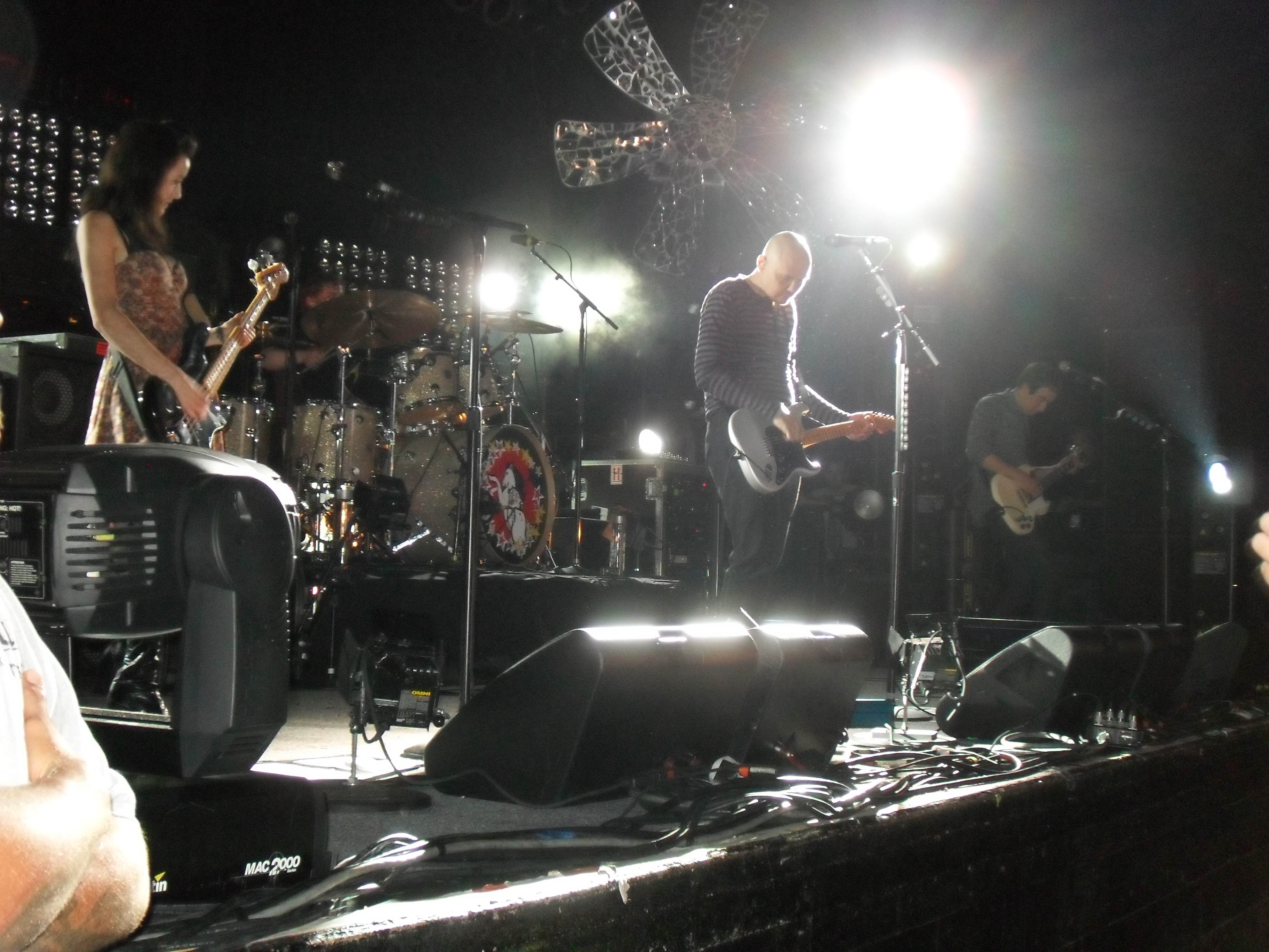 Taken at the Smashing Pumpkins concert in Grand Rapids.